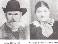 John and Adelaide Glenn in 1880. John Glenn and his wife Adelaide (née Belcourt) were the first documented Europeans to settle in the Calgary, Alberta, Canada area.